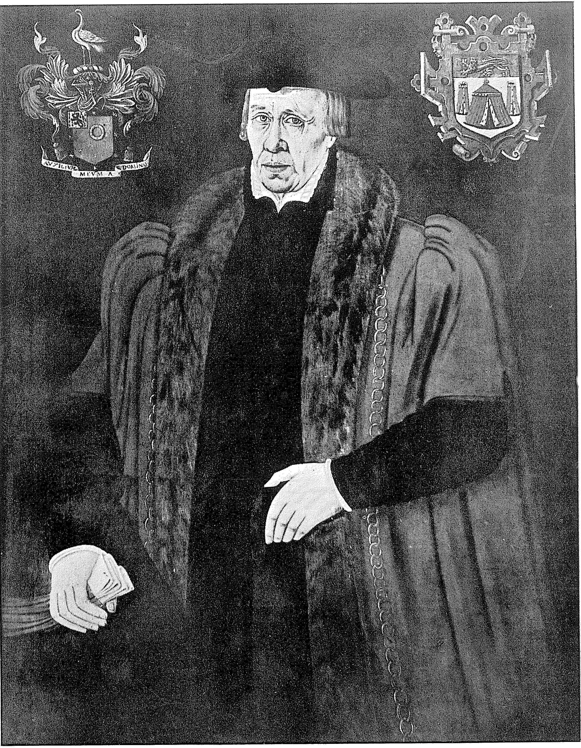 Portrait of Sir Thomas White, founder of St John's College, Oxford.